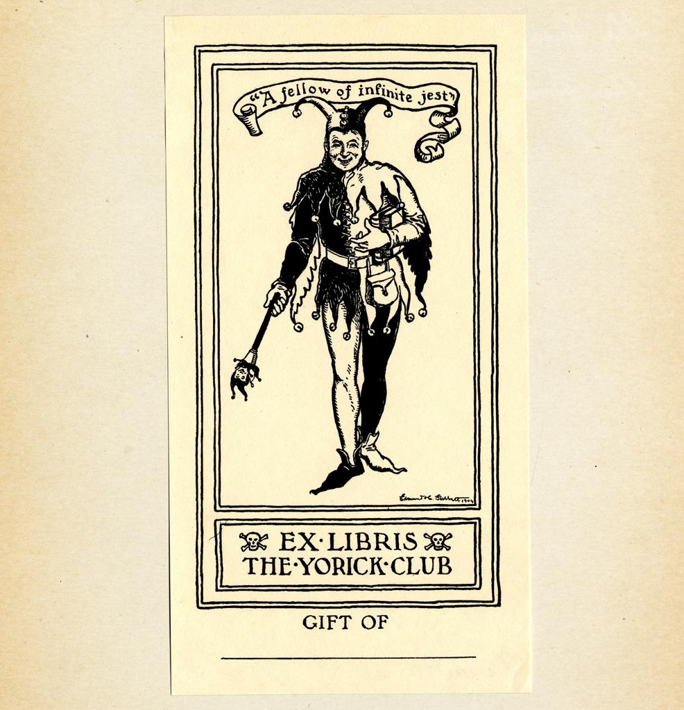 Pictorial Bookplates. Subject: Men; Books. Subject - Corporate Name: Yorick Club.